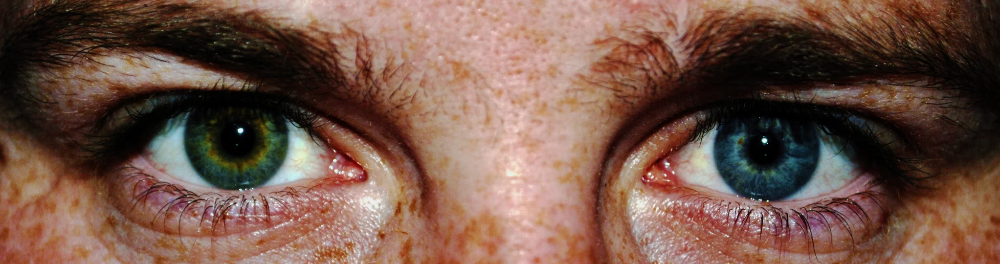 Full heterochromia with central heterochromia present.